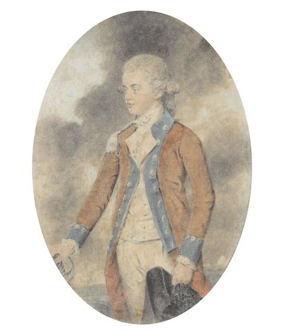 Portrait of General John Hodgson (1757 – 1846) as a lieutenant